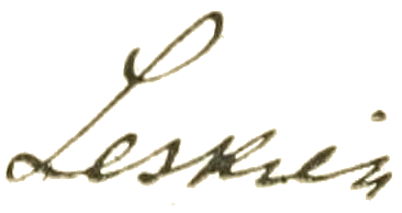 Signature of the German linguist August Leskien.